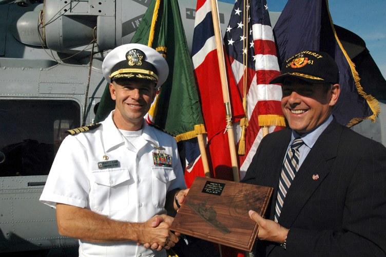 Oslo, Norway (July 3, 2006) - USS Monterey (CG 61) Commanding Officer, Capt. Robert Oldani, presents United States Ambassador to the Kingdom of Norway, Benson K. Whitney, with a Monterey plaque and ball cap. Monterey recently completed the Neptune Warrior Course, and earned its certification for their six-month deployment later this year. U.S. Navy photo by Mass Communication Specialist Seaman Apprentice John Suits (RELEASED)